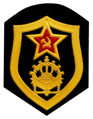 Emblem of the soviet armed forces 1960 to 1991, Soviet Army (military branches, service branches or armed services), sleeve badge (appliquéd) right hand upper arm (dress uniform/ parade uniform) to be used for the ranks OR1 to 8, and WO1 to 2, here: – “Engineers constructing troops”, design 1985.